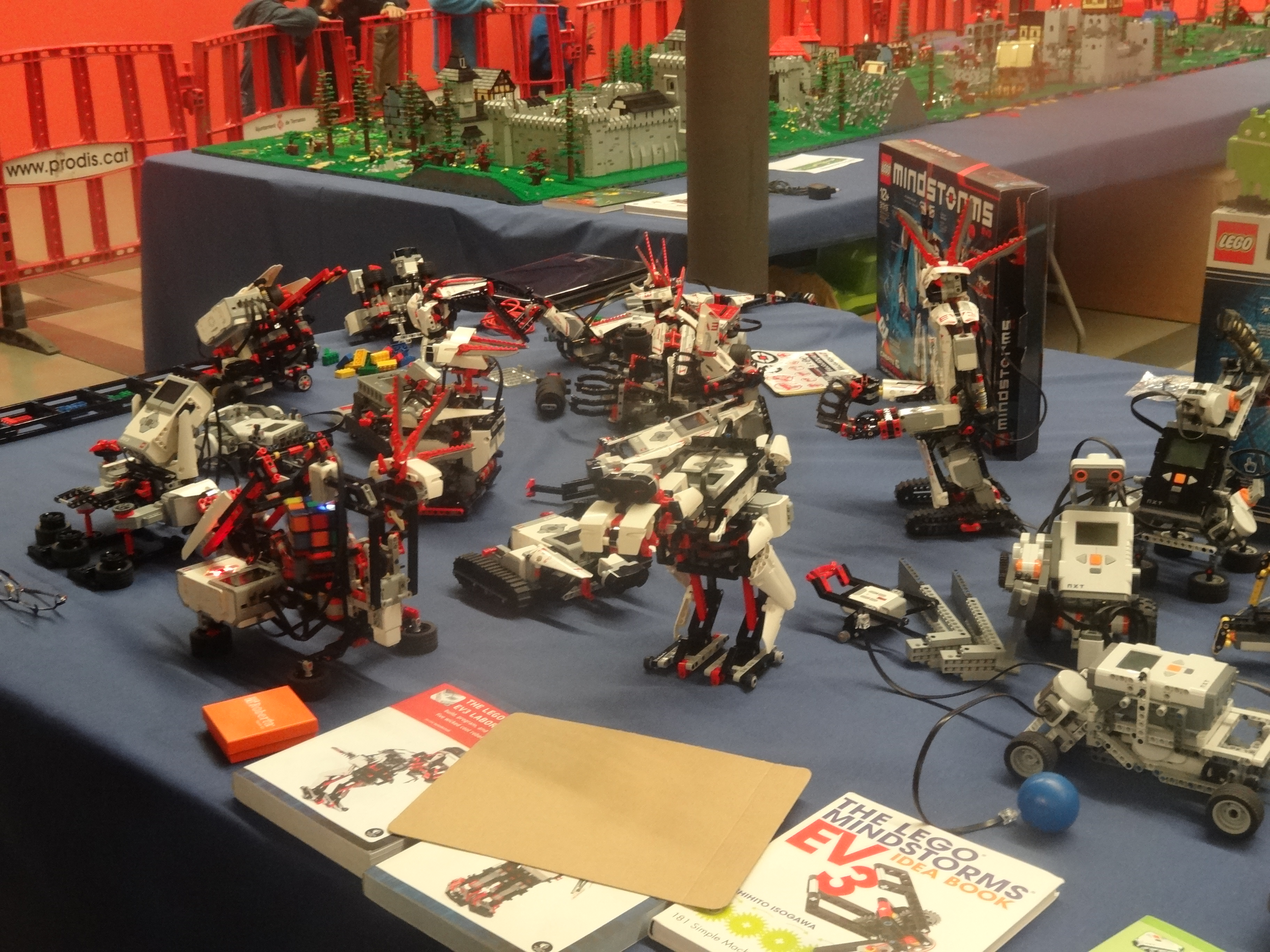 Meeting of fans of LEGO constructions organized by HispaBrick Magazine at the Museu Nacional de la Ciència i de la Tècnica de Catalunya (mNACTEC) in Terrassa, on 5-6th December 2015